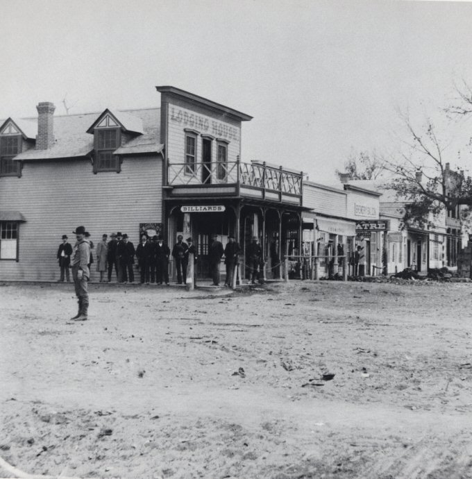 Street view, Miles City, Montana, 1881 photo by Frank Jay Haynes